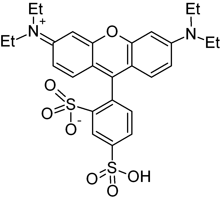 Structure for Sulforhodamine B (InChIKey = IOOMXAQUNPWDLL-UHFFFAOYAJ ) , drawn in ACD ChemSketch.